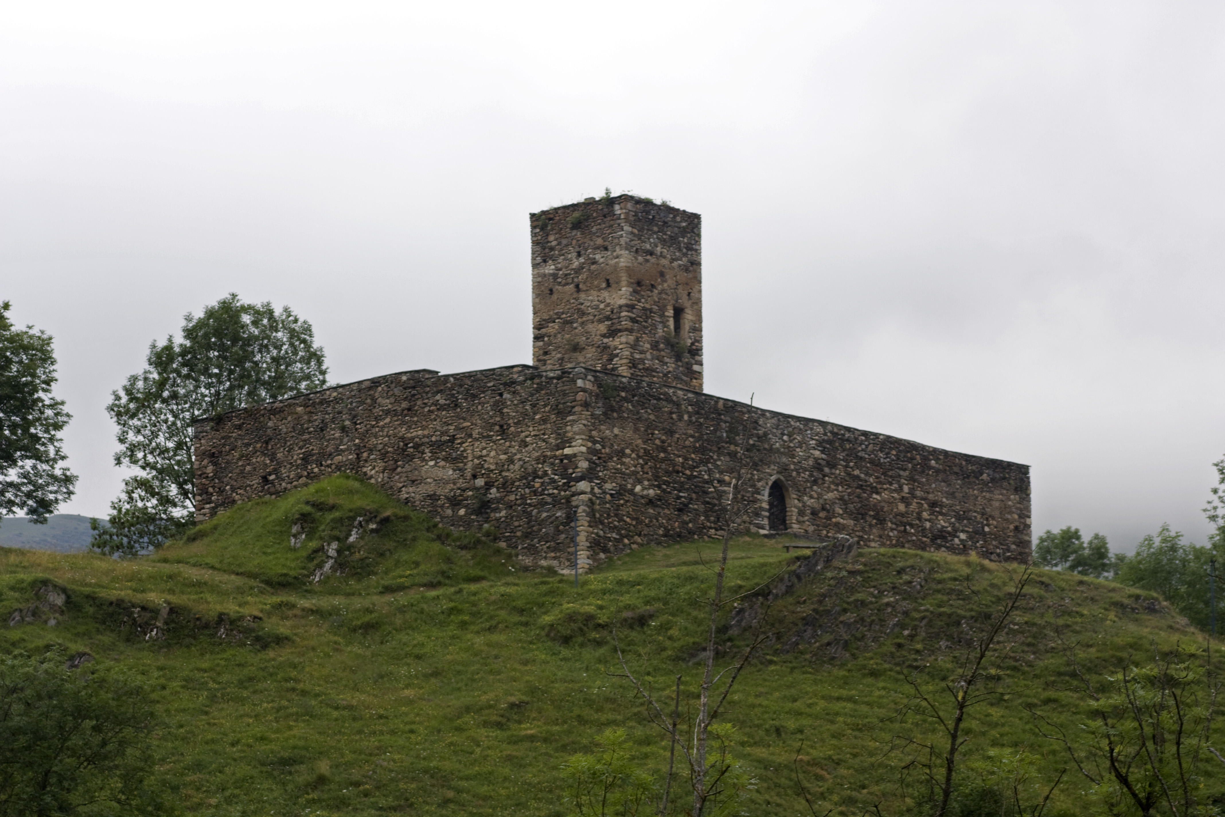 The castle, seen from the Town Hall